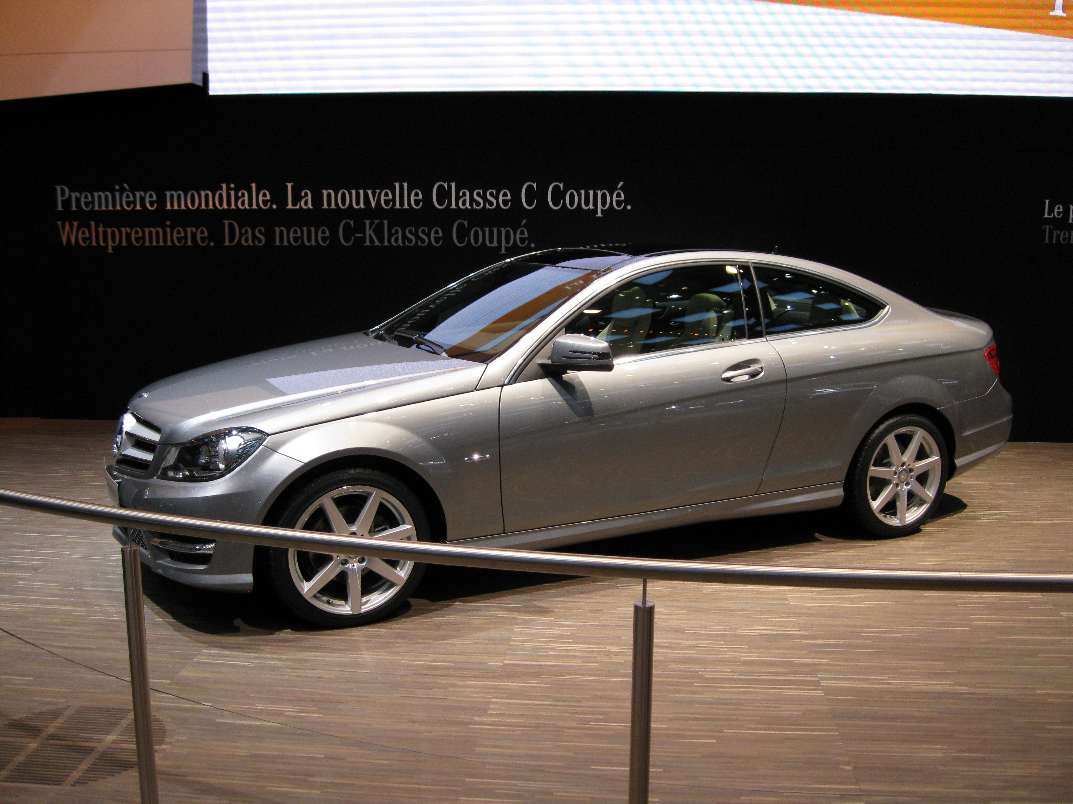 Geneva Motor Show 2011